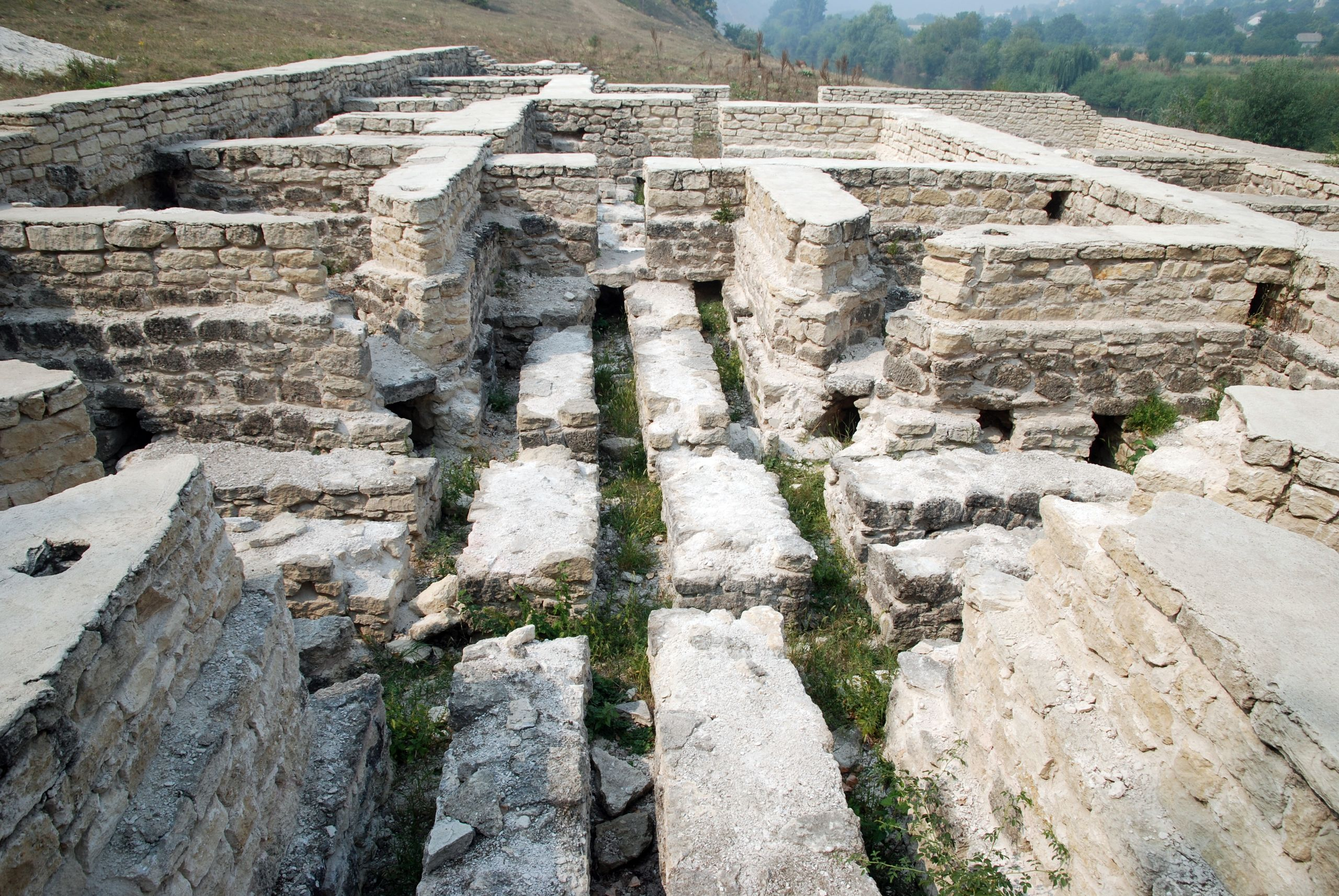 Orheiul Vechi, Tatar bath